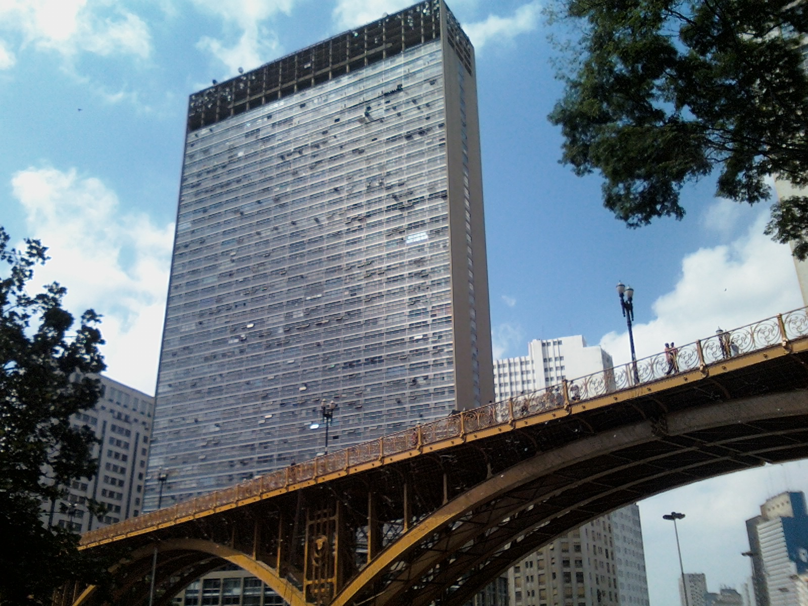 Mirante do Vale Building, and Santa Ifigênia Viaduct in São Paulo city (old Downtown).